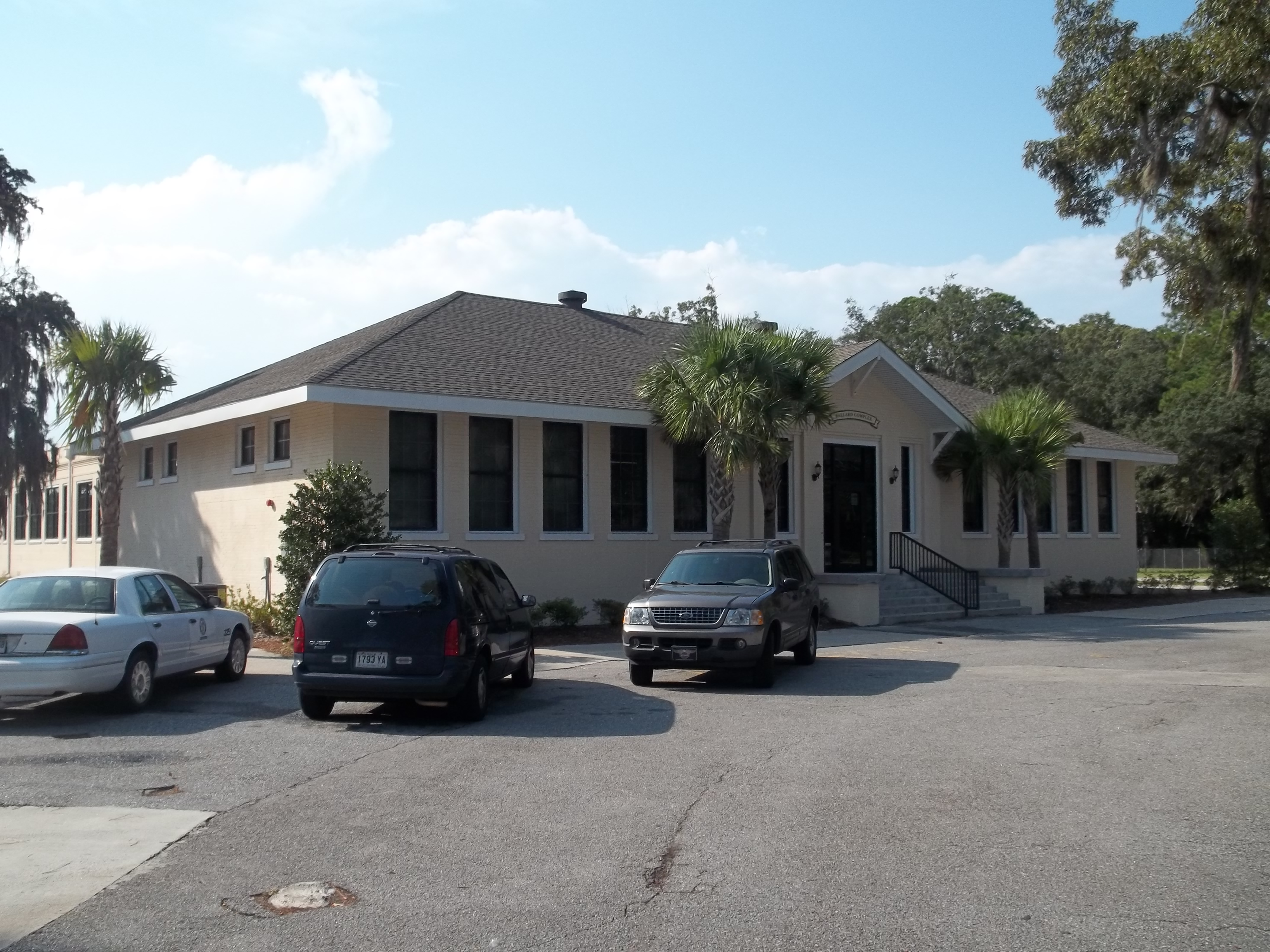 Brunswick, Georgia: Ballard School